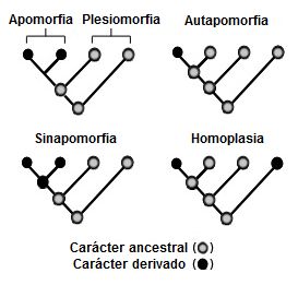 A cladogram showing the terminology used to describe different patterns of ancestral and derived character states.